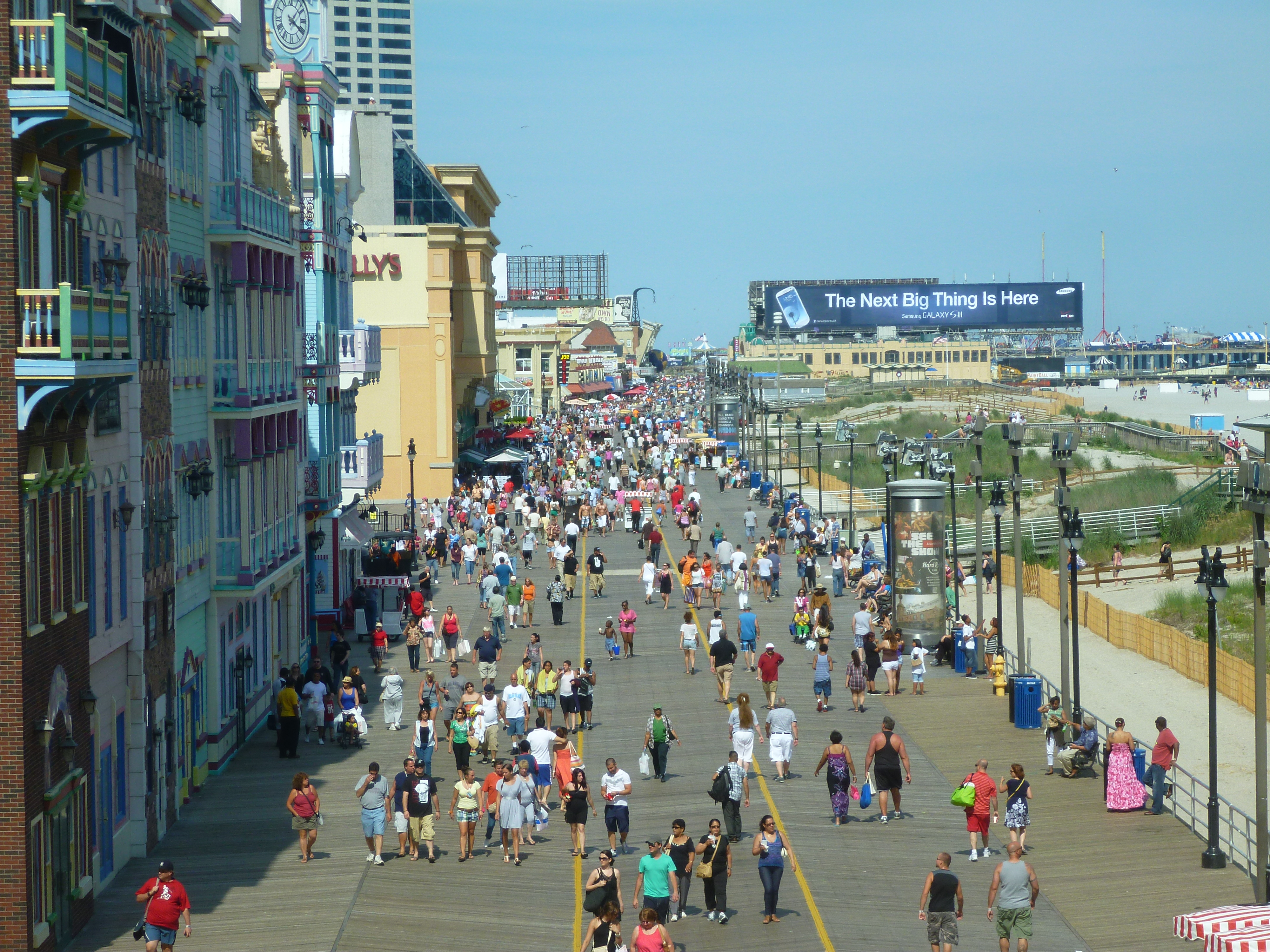 View of the Atlantic City Boardwalk, looking north from the skyway at Caesars Atlantic City, in Atlantic City, NJ, US